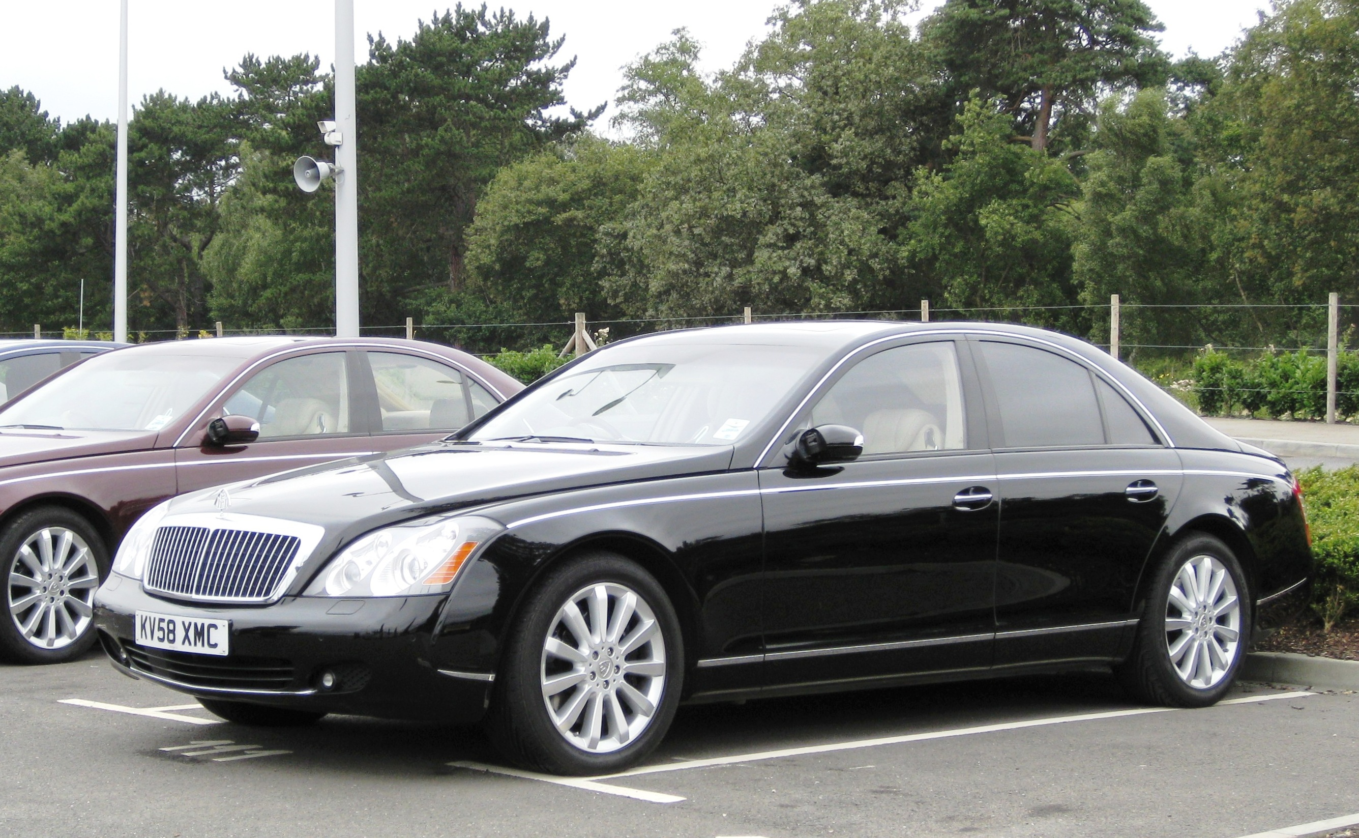 Maybach 57